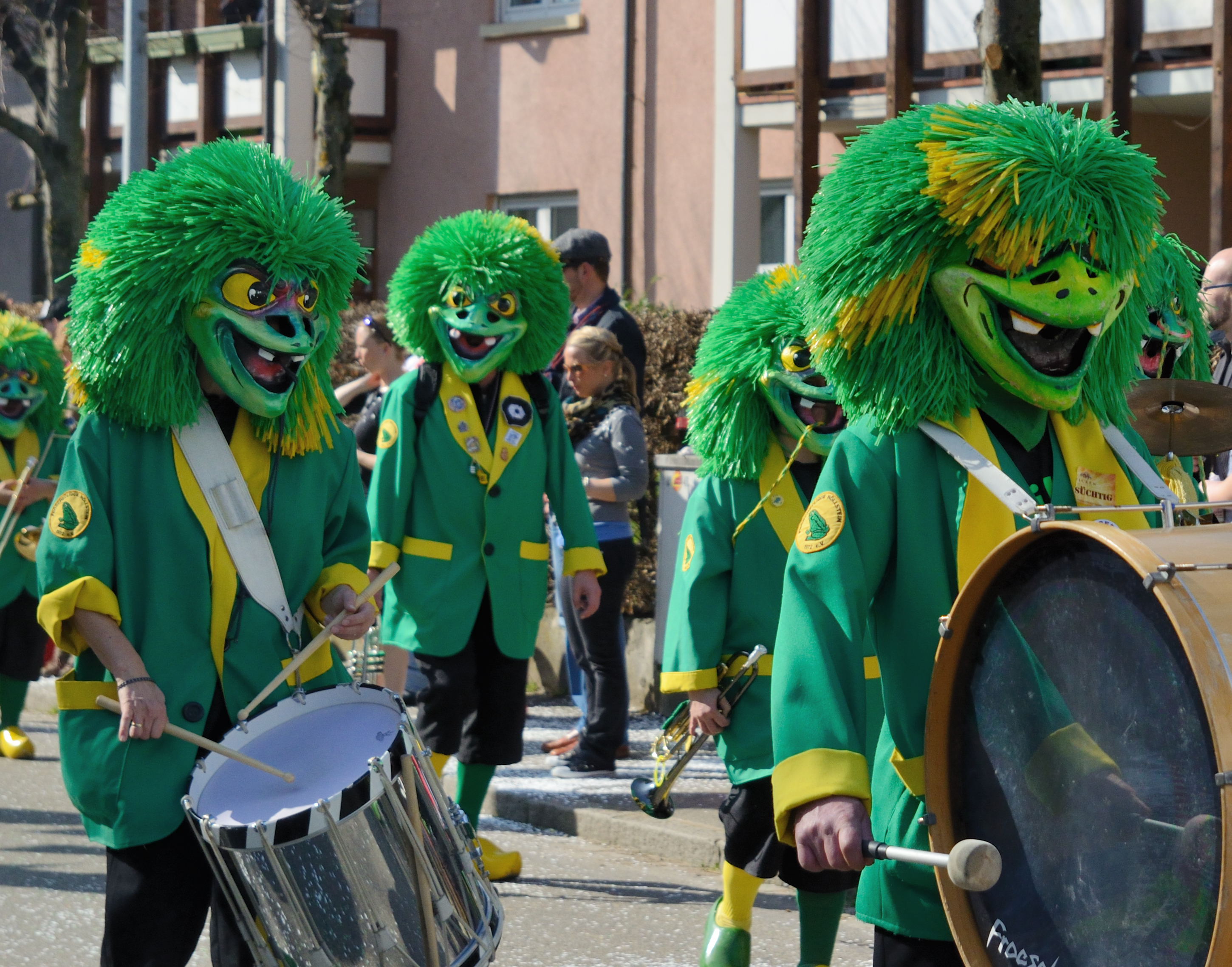 Carnival in Hauingen (Lörrach), Germany